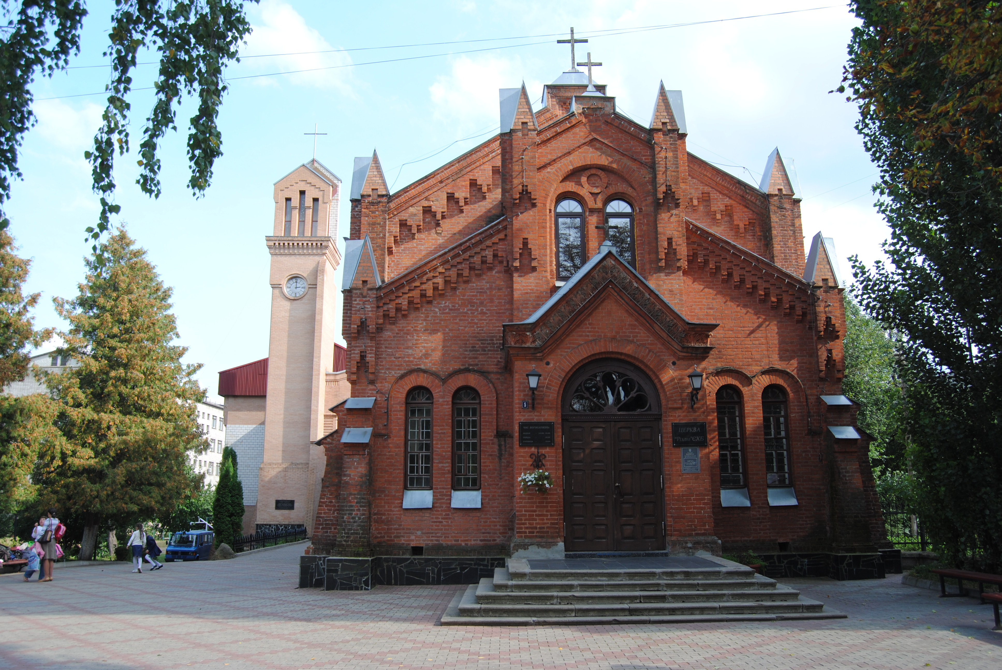 Baptist church in Zhytomyr, formerly a Lutheran Church